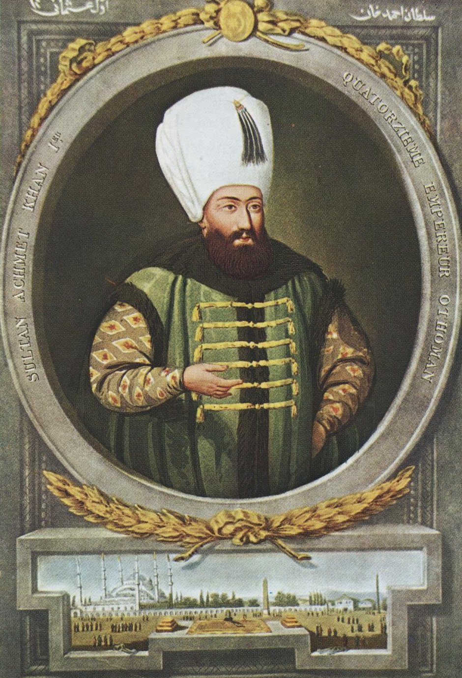 Ahmet I